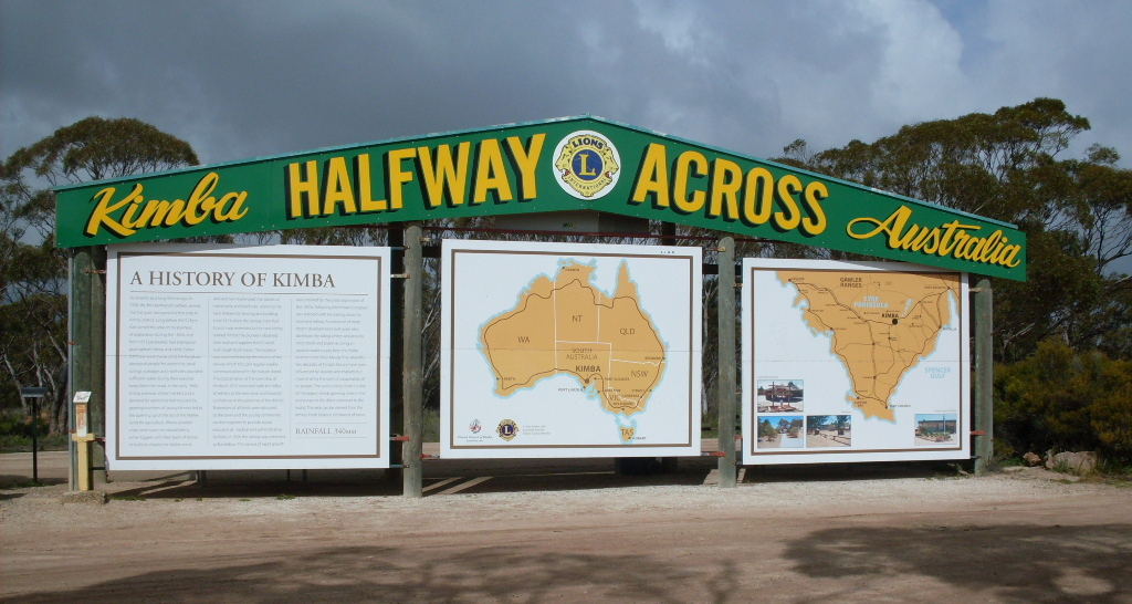 A sign featured in the South Australian town of Kimba (also known for housing the Big Galah0, marking Halfway Across Australia (2010)